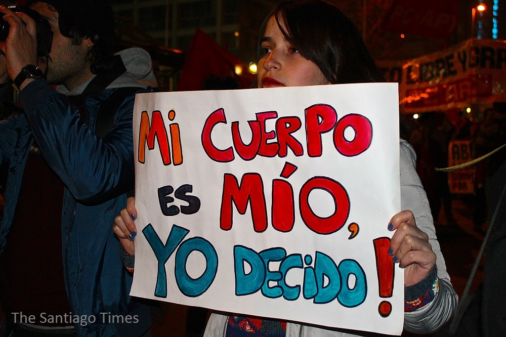 Photo by Ashoka Jegroo / The Santiago Times